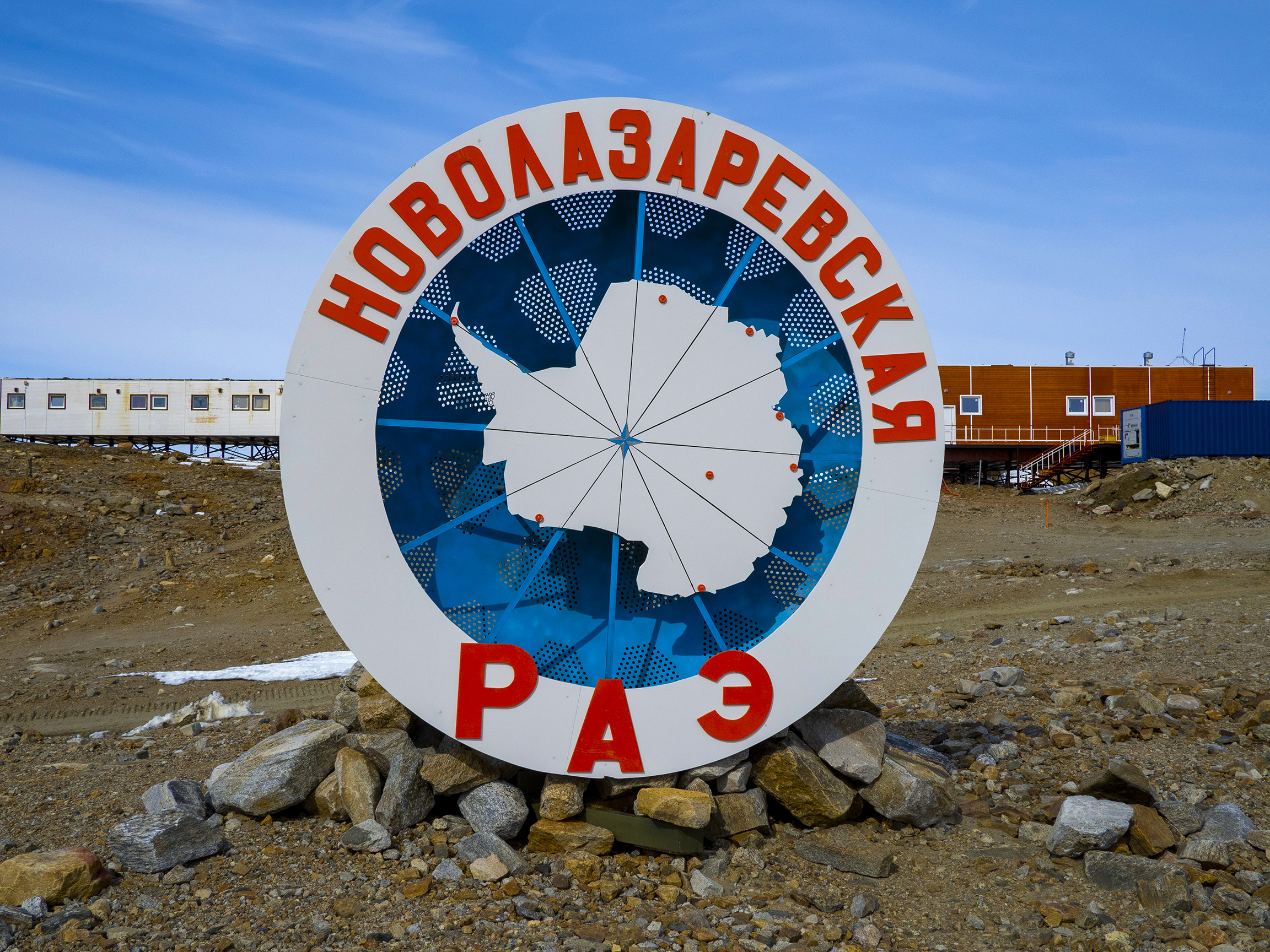 Novolazarevskaya, Russian Antarctic Station sign